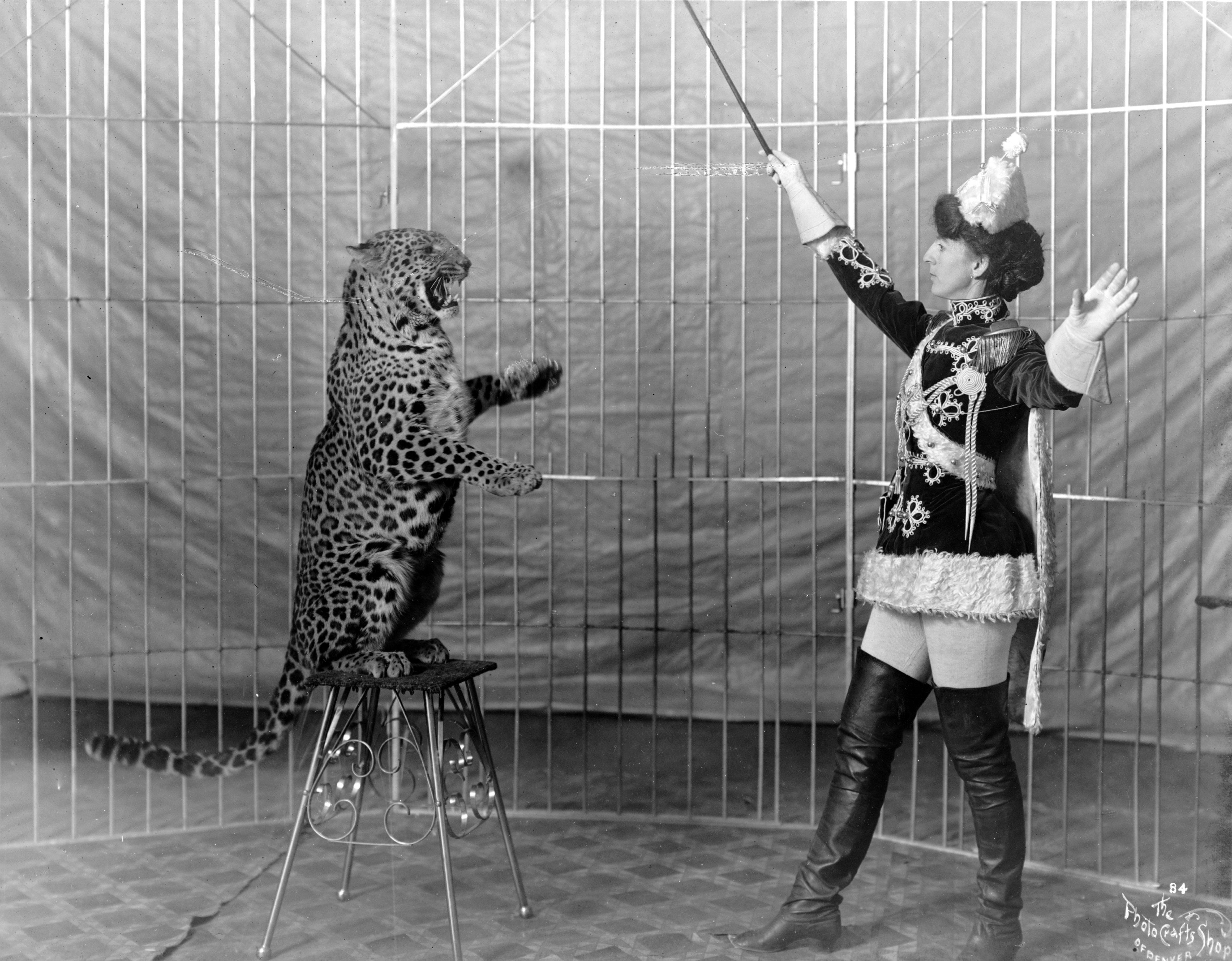 Vallecita's leopards: Female animal trainer and leopard.